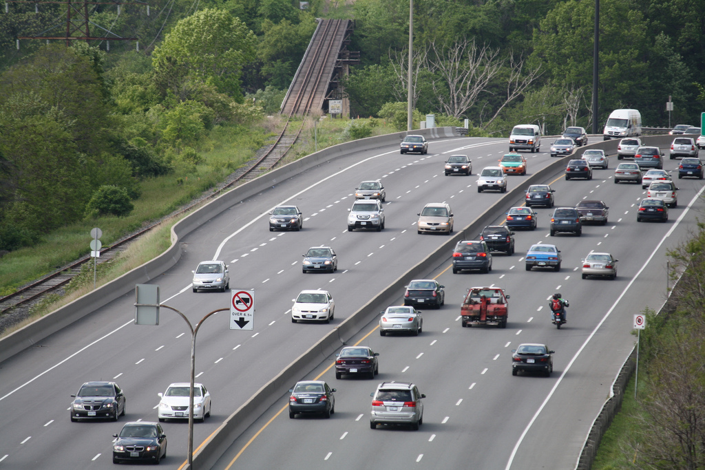 An optical illusion of the "Half-Mile Bridge", an abandoned rail bridge crossing the Don Valley north of Bloor. The illusion hides the immense size of the valley, instead making it appear as a bridge crossing a small creek. In reality, the bridge is almost 1500 feet long.